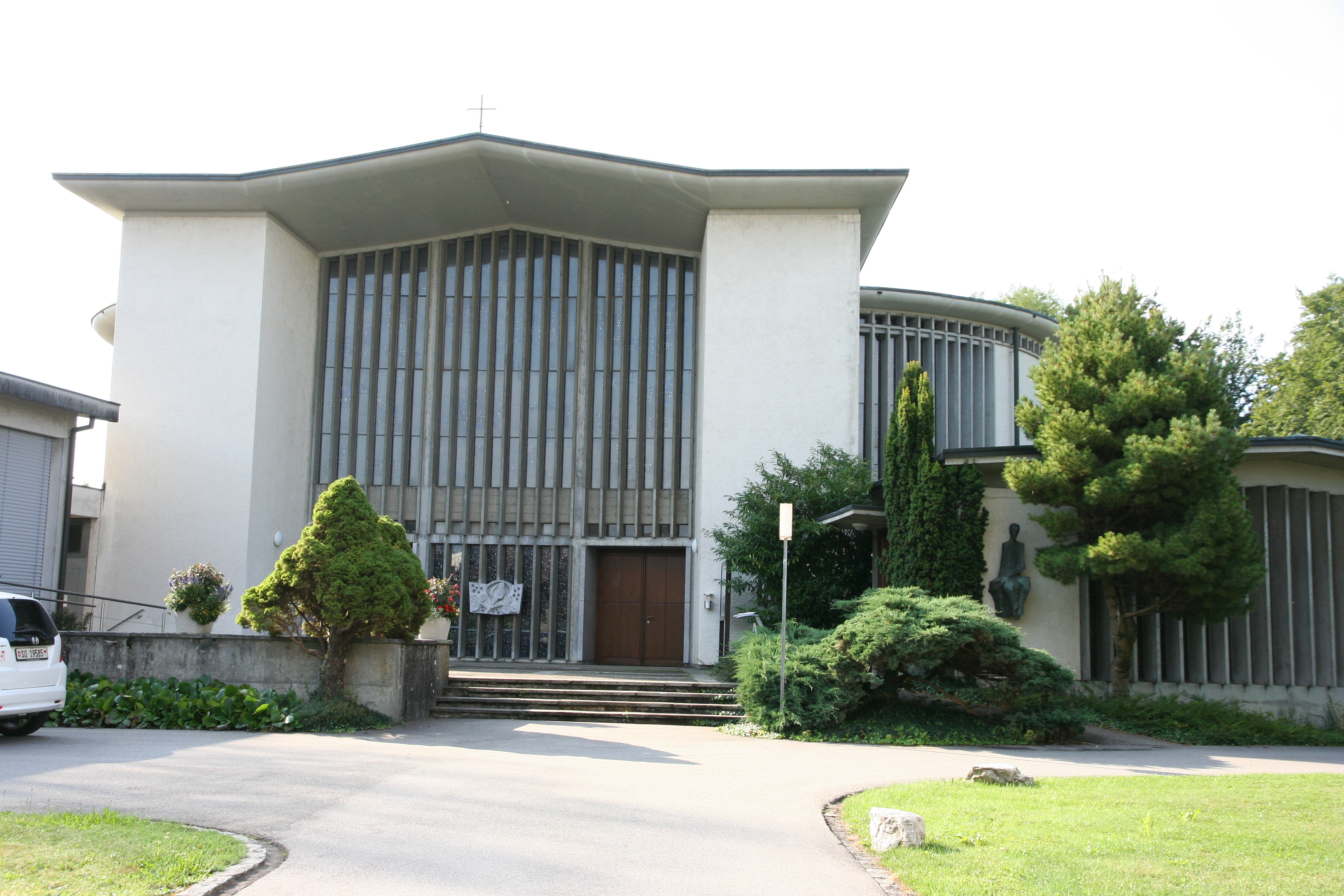 Church Bruder Klaus Gerlafingen, Switzerland